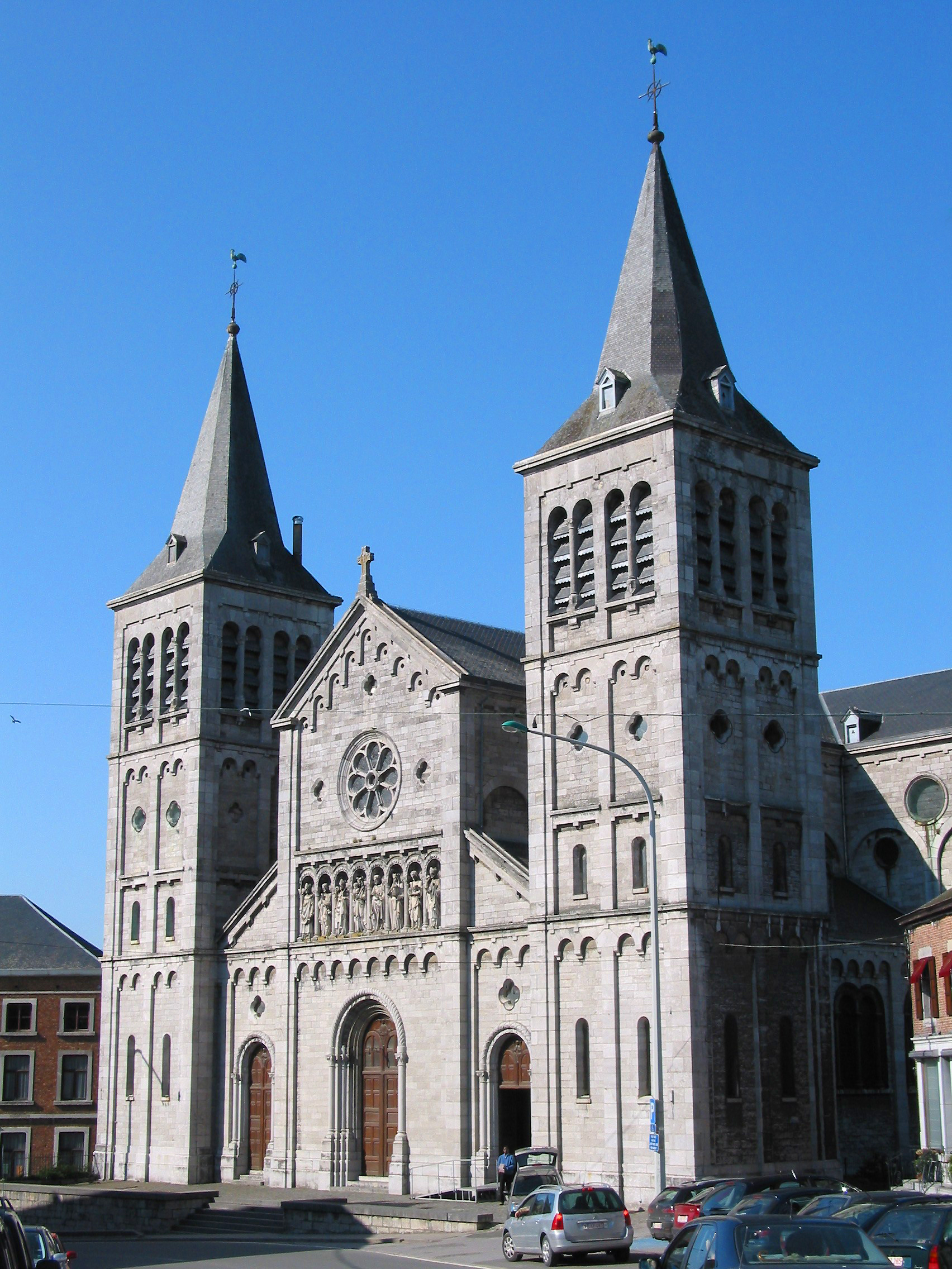 Rochefort (Belgique), the Holy Virgin Visitation church (1871-1873).